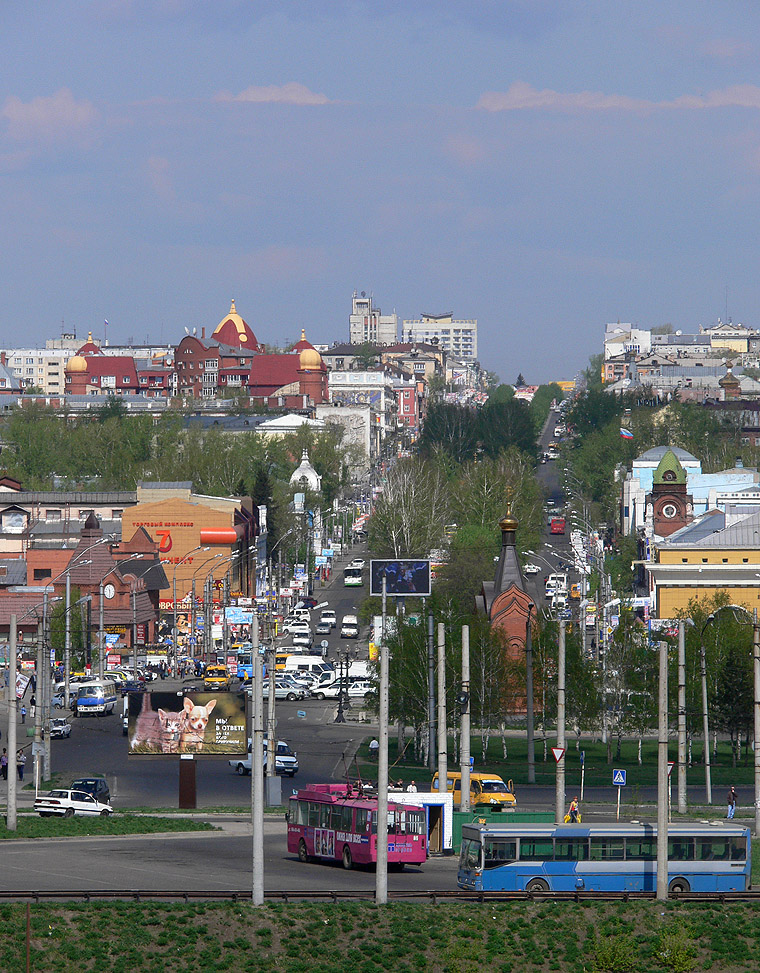 Lenin Avenue in Barnaul, as seen from the New bridge over Ob River.